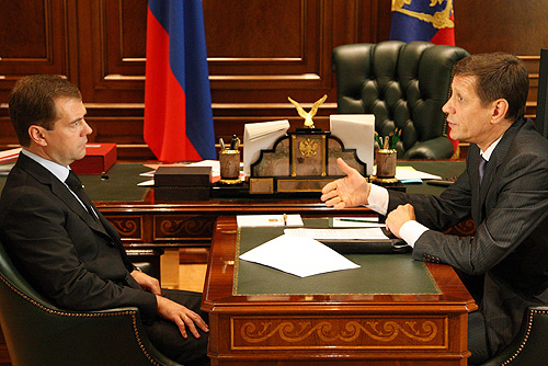 GORKI, MOSCOW REGION. With Deputy Prime Minister Alexander Zhukov.